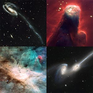 Jubilant astronomers unveiled humankind's most spectacular views of the universe, courtesy of the newly installed Advanced Camera for Surveys (ACS) aboard NASA's Hubble Space Telescope. Among the suite of four ACS photographs to demonstrate the camera's capabilities is a stunning view of a colliding galaxy dubbed the "Tadpole" (UGC10214). Set against a rich tapestry of 6,000 galaxies, the Tadpole, with its long tail of stars, looks like a runaway pinwheel firework. Another picture depicts a spectacular collision between two spiral galaxies -- dubbed "The Mice" -- that presages what may happen to our own Milky Way several billion years from now when it collides with the neighboring galaxy in the constellation Andromeda. Looking closer to home, ACS imaged the "Cone Nebula," a craggy-looking mountaintop of cold gas and dust that is a cousin to Hubble's iconic "pillars of creation" in the Eagle Nebula, photographed in 1995. Peering into a celestial maternity ward called the Omega Nebula or M17, ACS revealed a watercolor fantasy-world of glowing gases, where stars and perhaps embryonic planetary systems are forming.